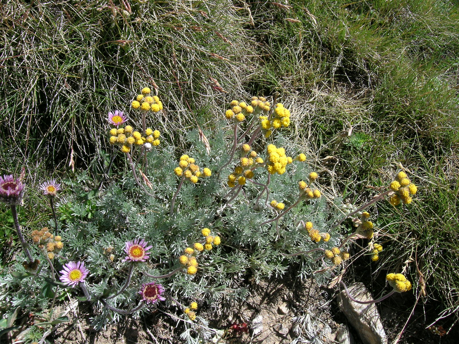 Artemisia glacialis Zermatt, beneath Gornergrat (Kanton Wallis, Switzerland), 2800 m Author: Roland Teuscher – own photograph Date: 3.08.06